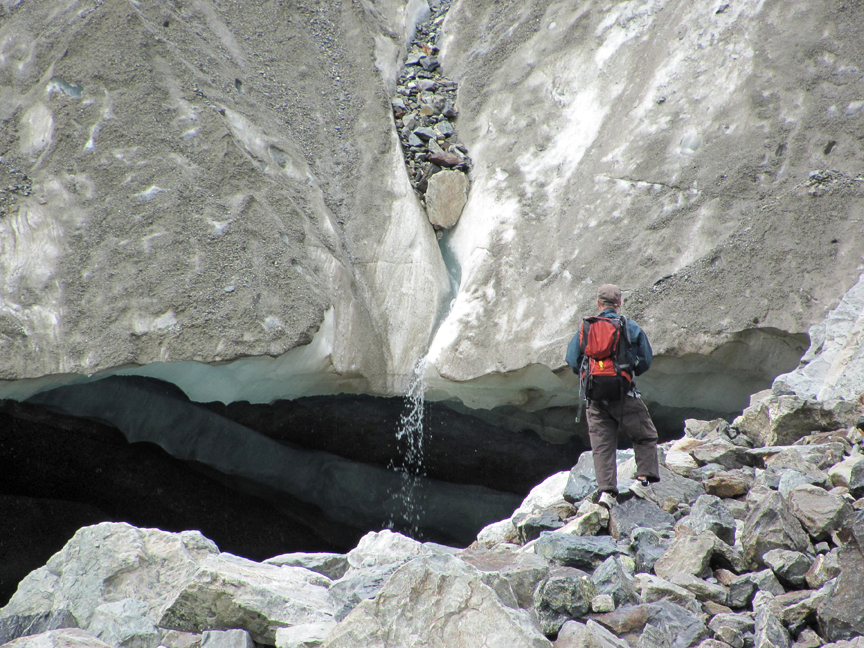 Glacier's Mouth. Chalati, Svaneti, Georgia.